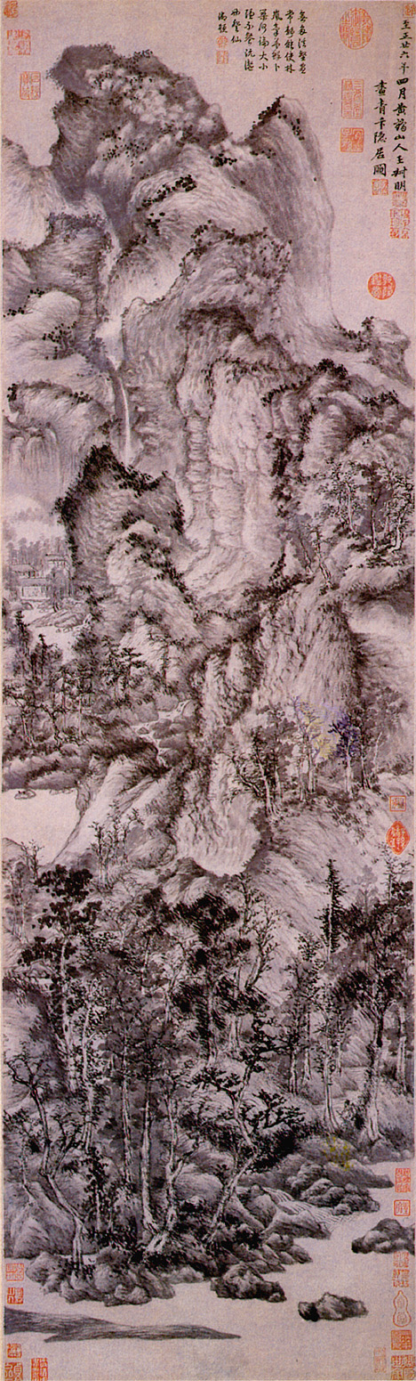 Wang Meng (ca. 1309-1385), Secluded Dwelling in the Qingbian Mountains